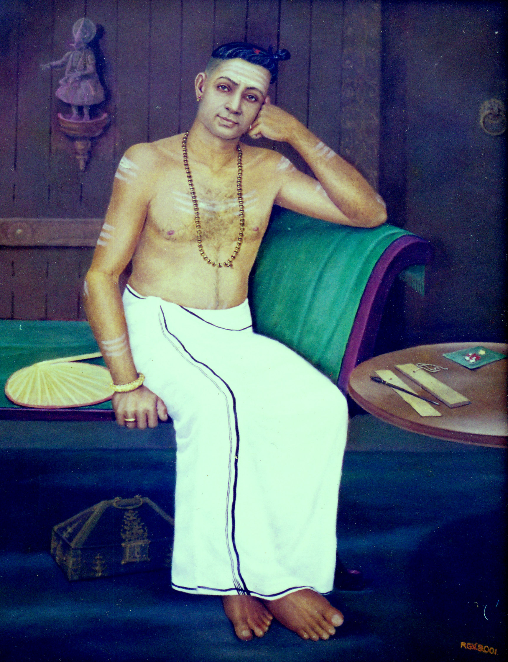 A Portrait of Unnayi Warrier, a 17th Century Poet who lived in Kerala. He is famous for 'Nalacharitham' Attakkadha